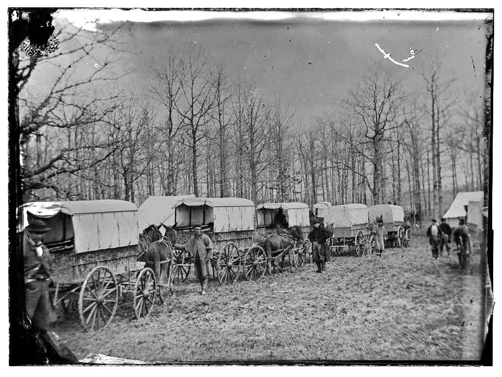 Washington, District of Columbia. Ambulance train at Harewood Hospital - July 1863 - LC-B811- 1146